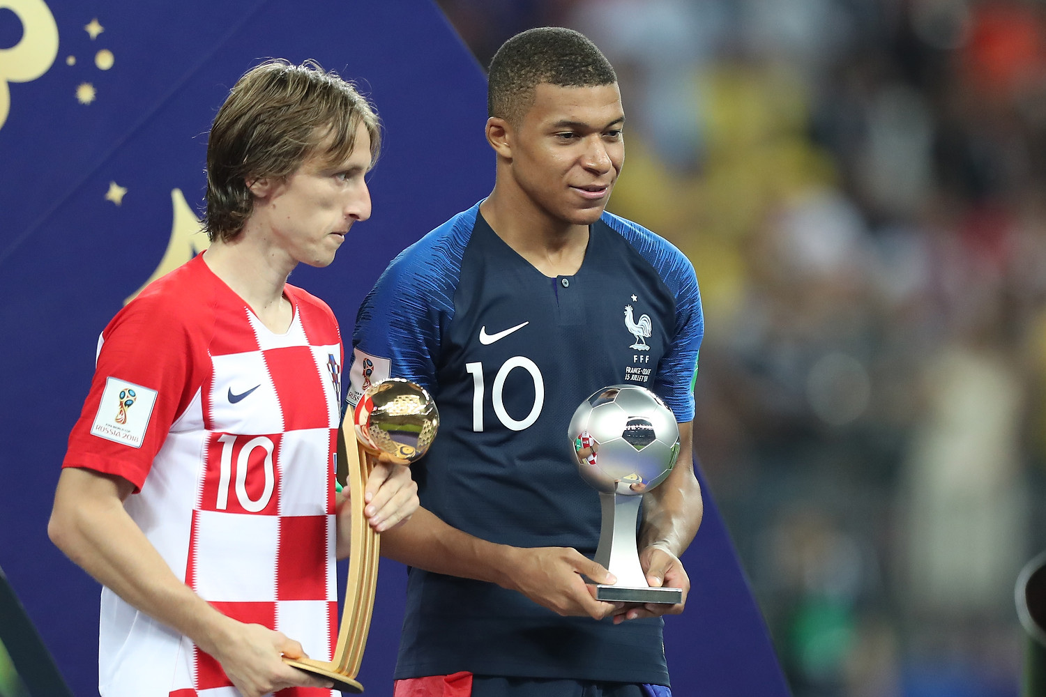 Kylian Mbappé and Luka Modrić receive the award for the best young player and best player in the 2018 World Cup respectively